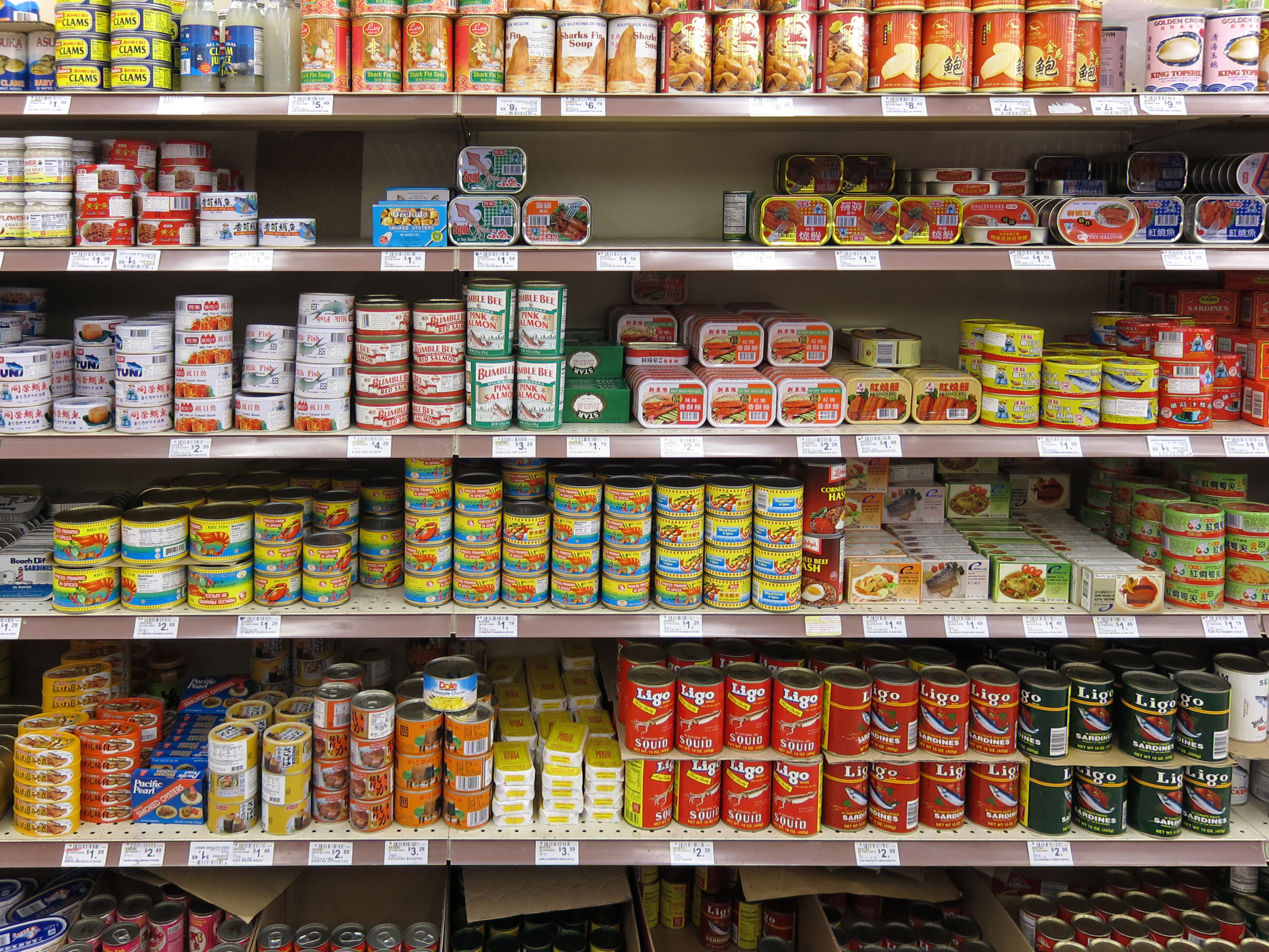 An aisle in a 99 Ranch Market in San Jose, California.